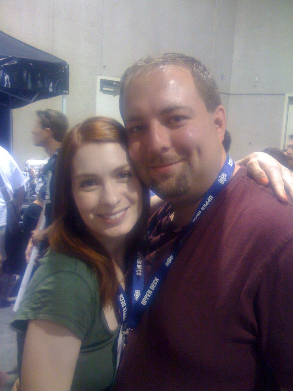 Photo of Jamie Chambers and Felicia Day at San Diego Comic-Con in 2008.